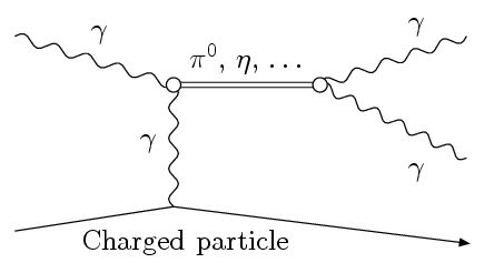 Feynman diagram for Primakoff effect